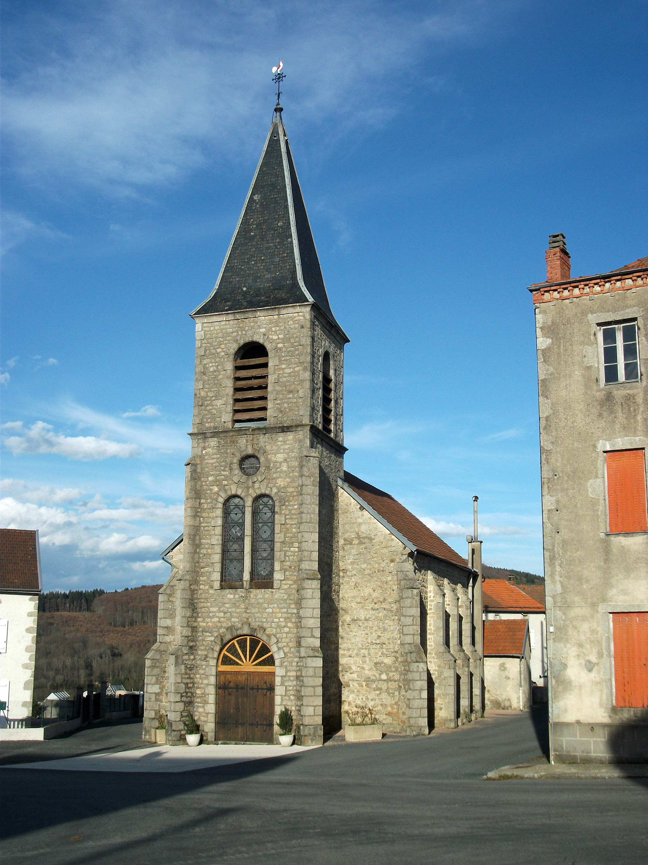 Church of La Guillermie, Allier, Auvegrne-Rhône-Alpes, France [10572]